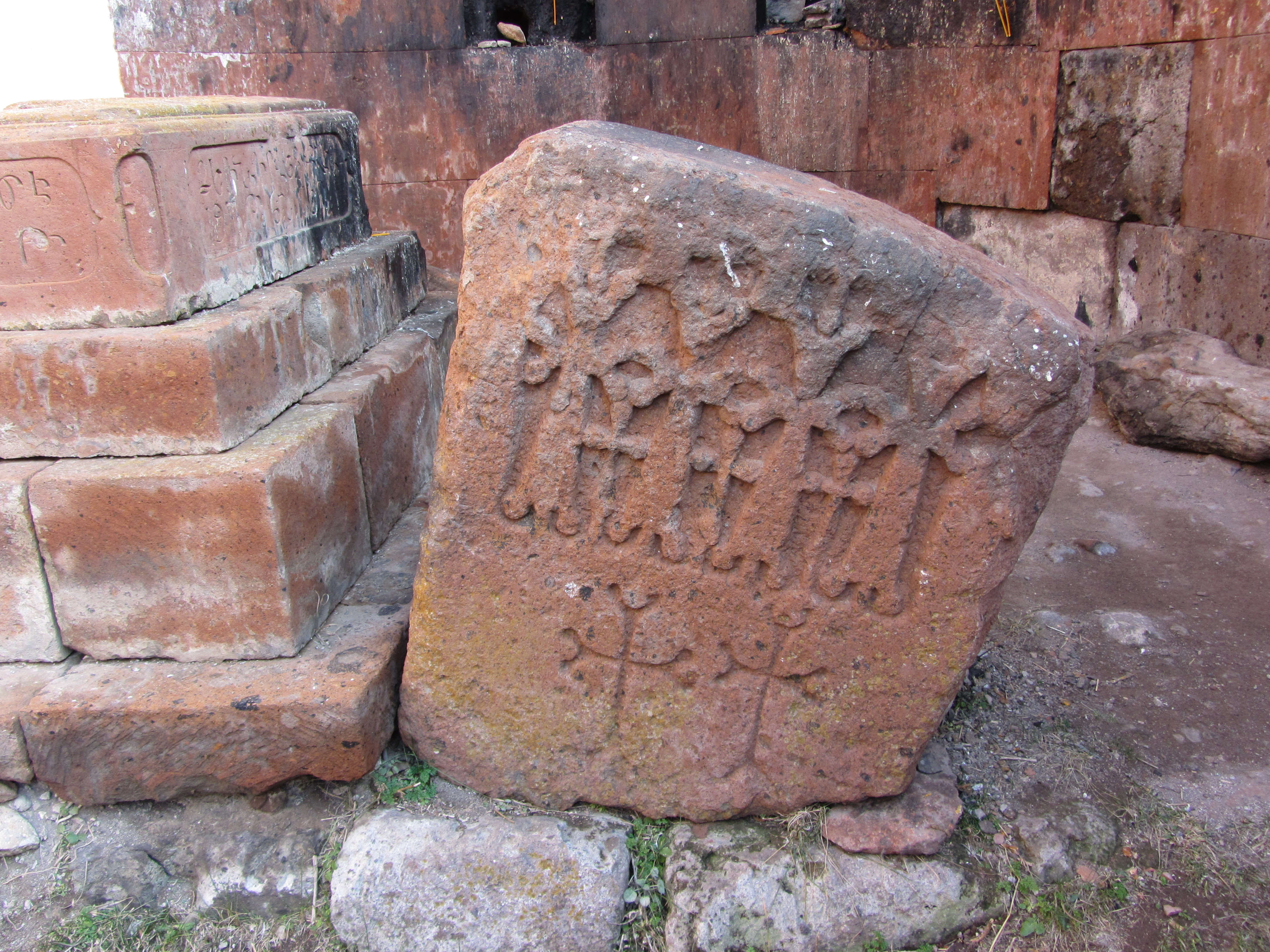 Mastara, Settlement Shenik, Surb Amenaprkich Church, 5c., tombstone